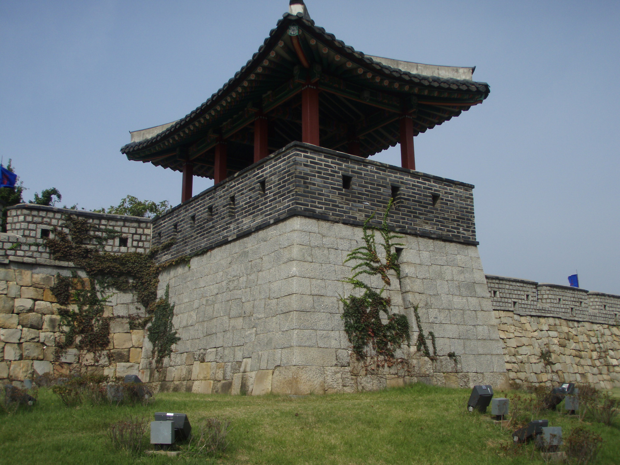 Dongilporu